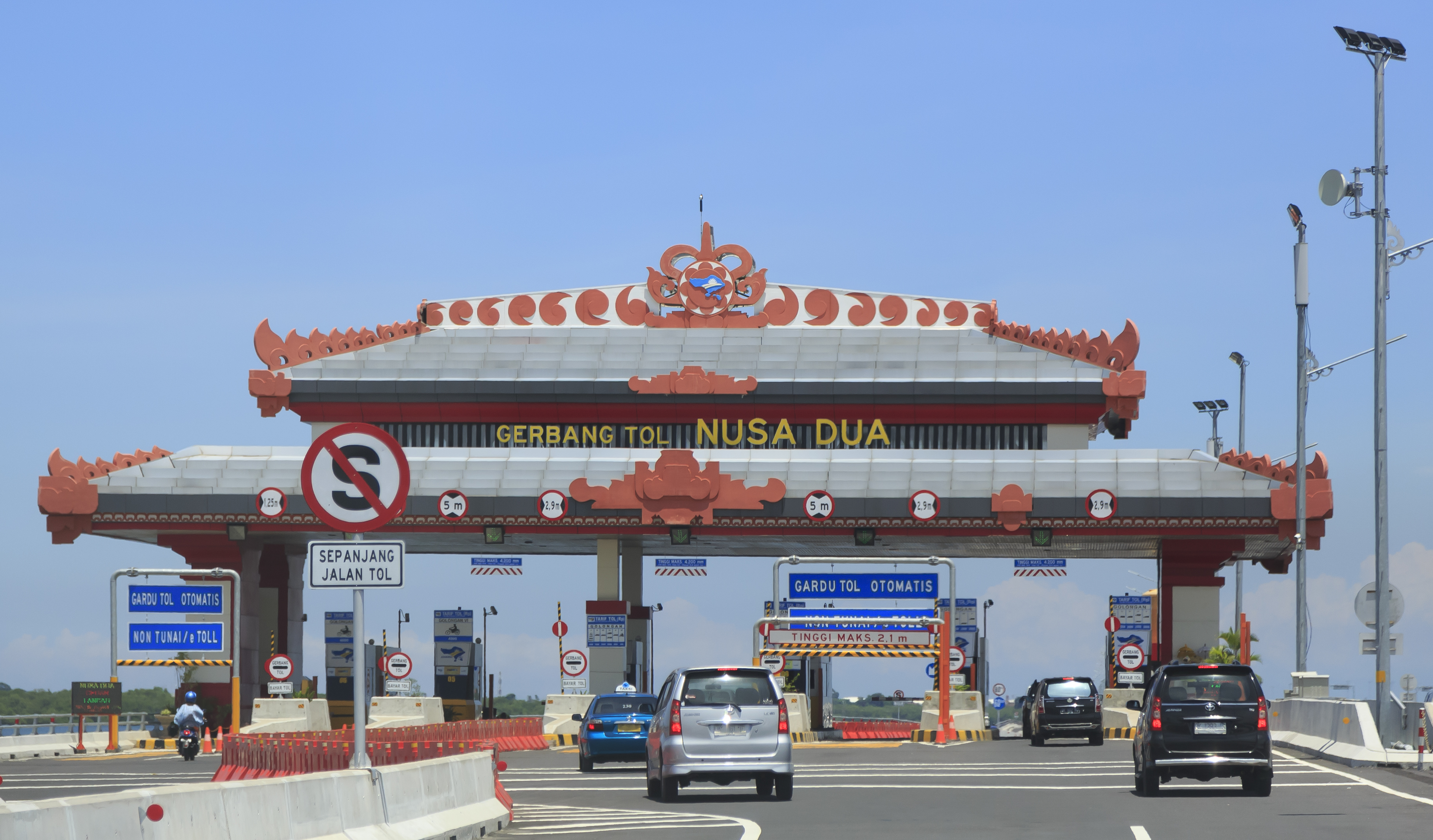 Kuta, Bali, Indonesia: Toll gate Nusa Dua.